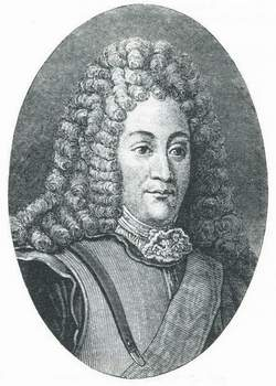 Vasily Lukich Dolgorukoff (~1670-1739), russian diplomat. Engraving of XVIII age